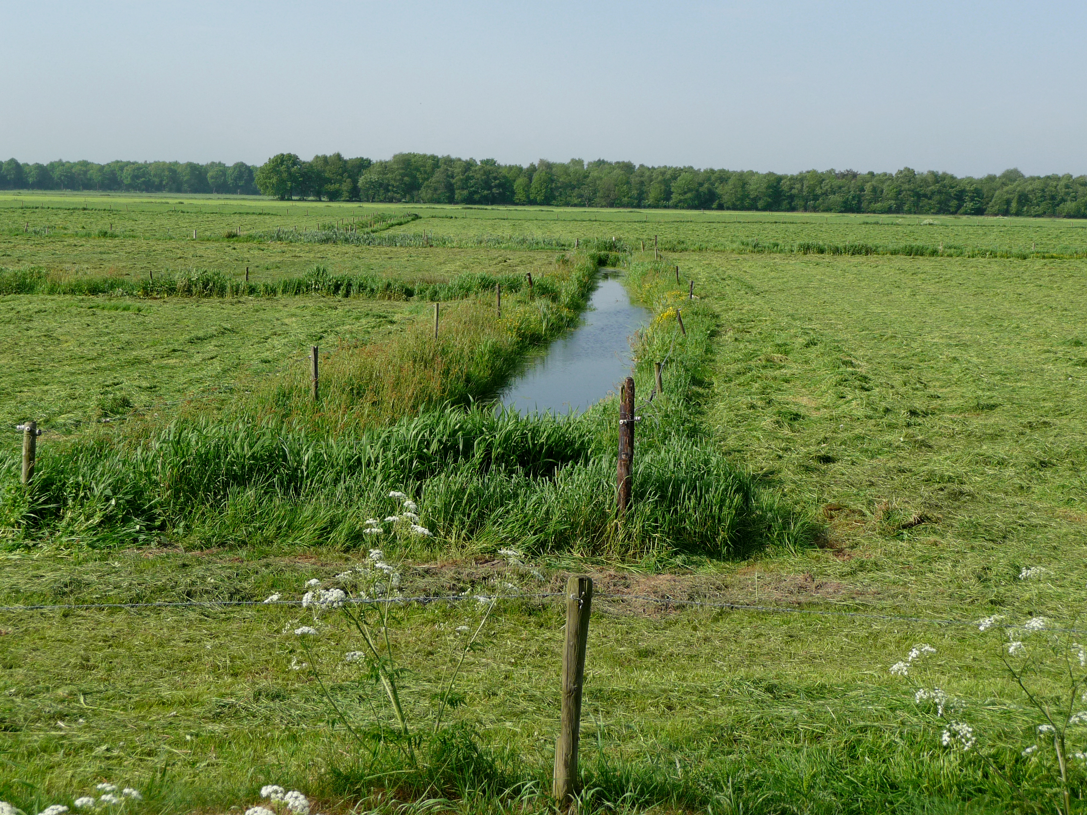 Photo of Dutch wide landscape of grass fields just mowed by the farmer for creating his fresh stock for the milk-cows. It is here the region of Midden-Drenthe in the Netherlands, on the peat soils which is not an ideal soil for grass but nevertheless it grows here very well, thanks to the ditch to be able to regulate the water level and the many times of water spraying out of the ditch.